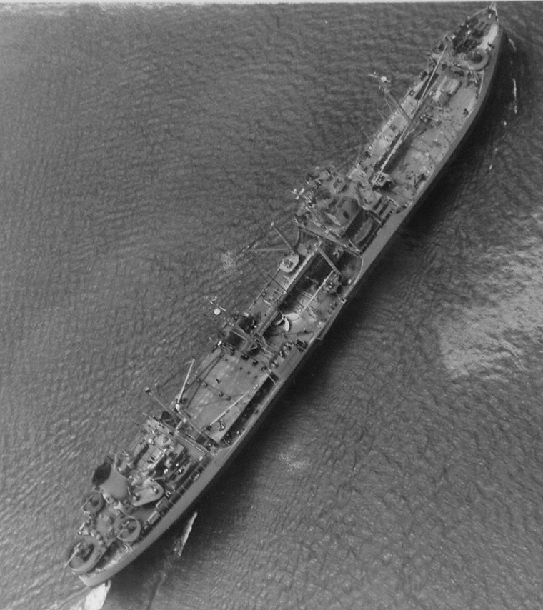 Aerial view of the United States Navy fleet oiler USS Enoree (AO-69) near Norfolk, Virginia (USA), on 17 May 1943.